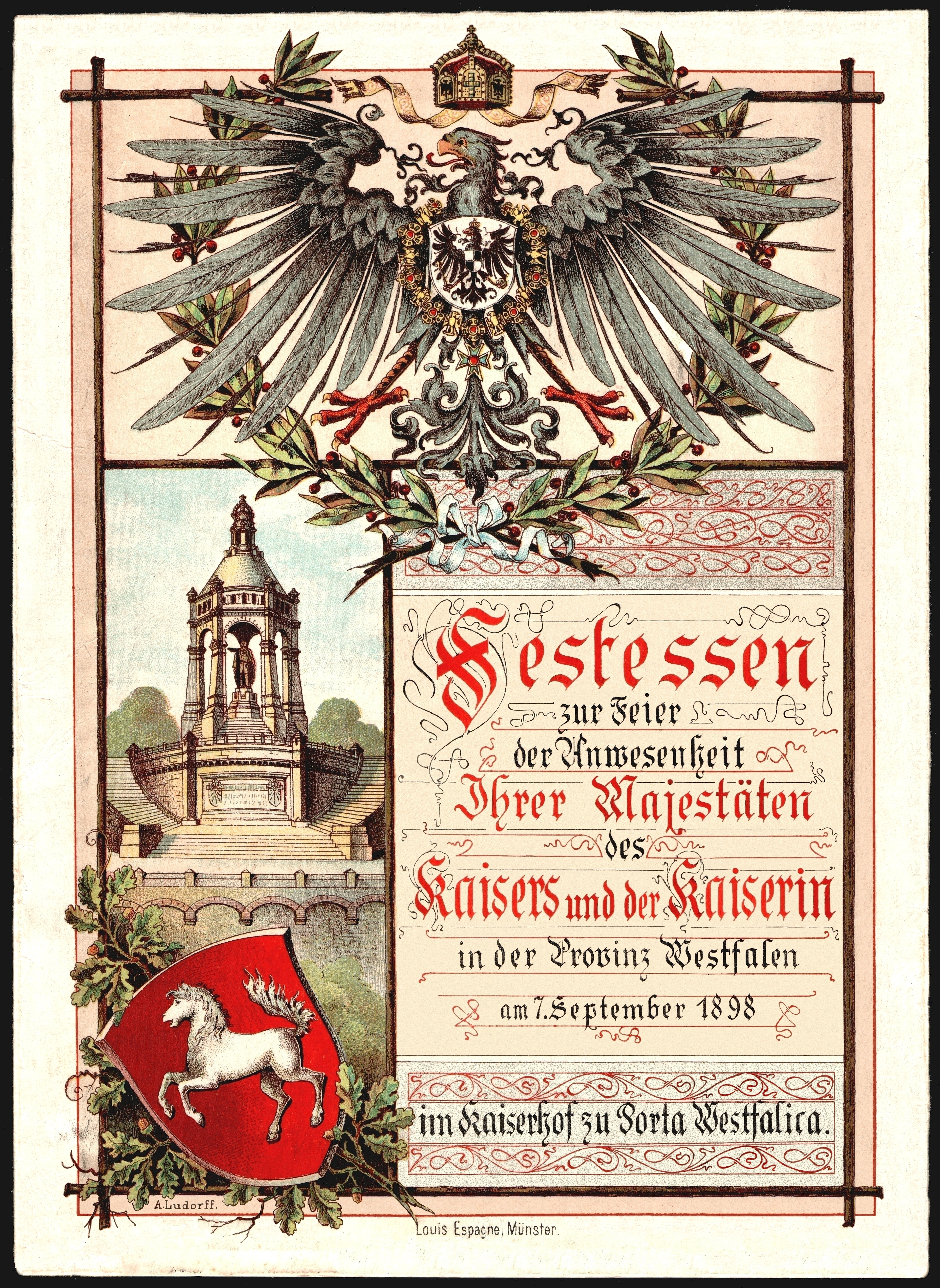 Menu card (front page) for the banquet in honour of the presence of German Emperor Wilhelm II and Empress Auguste Viktoria on Sept. 7, 1898 in Hotel Kaiserhof, Porta Westfalica. Size: 26 cm x 19 cm.